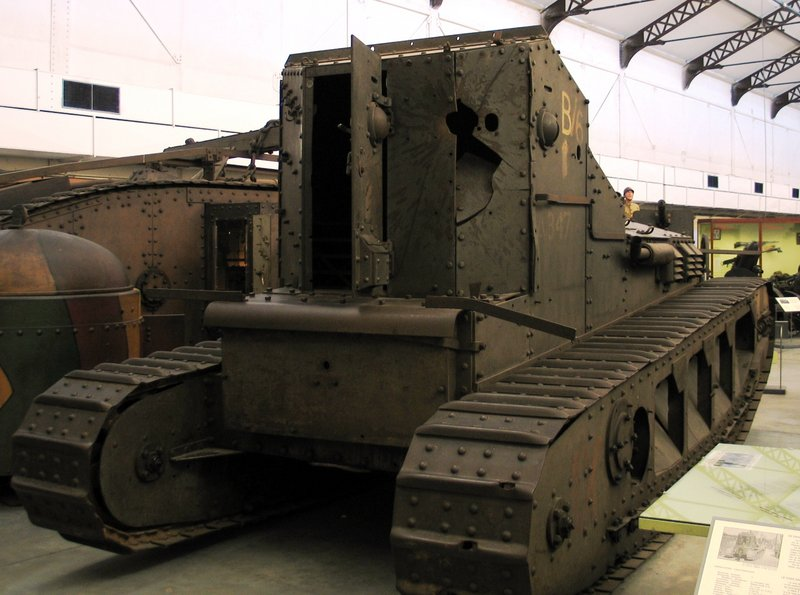 Back of Medium Mark A Whippet tank (A347 Firefly), The Royal Museum of the Army, Brussels